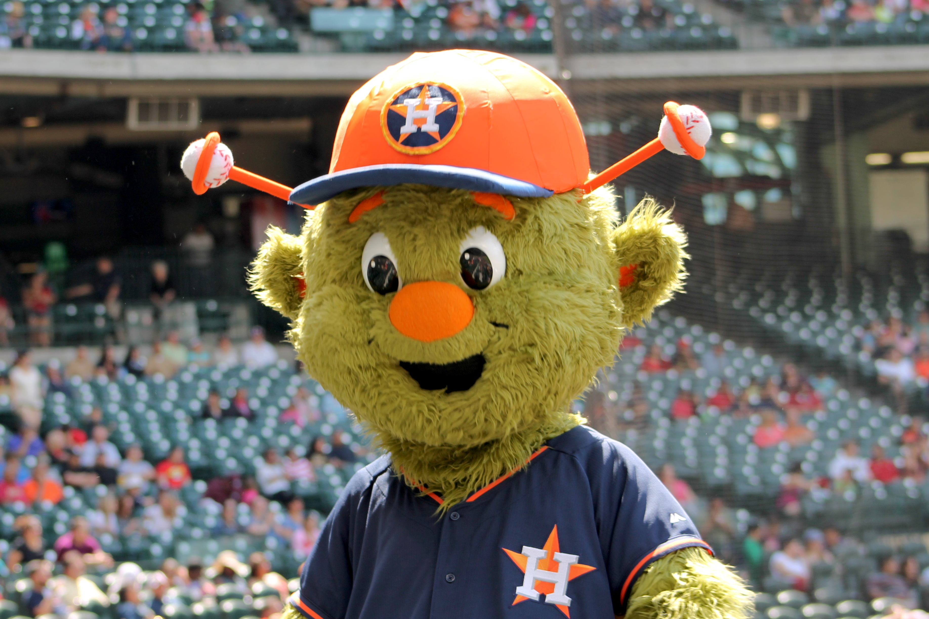 Orbit, the mascot for the Houston Astros, entertains fans at Minute Maid Park in March 2014.